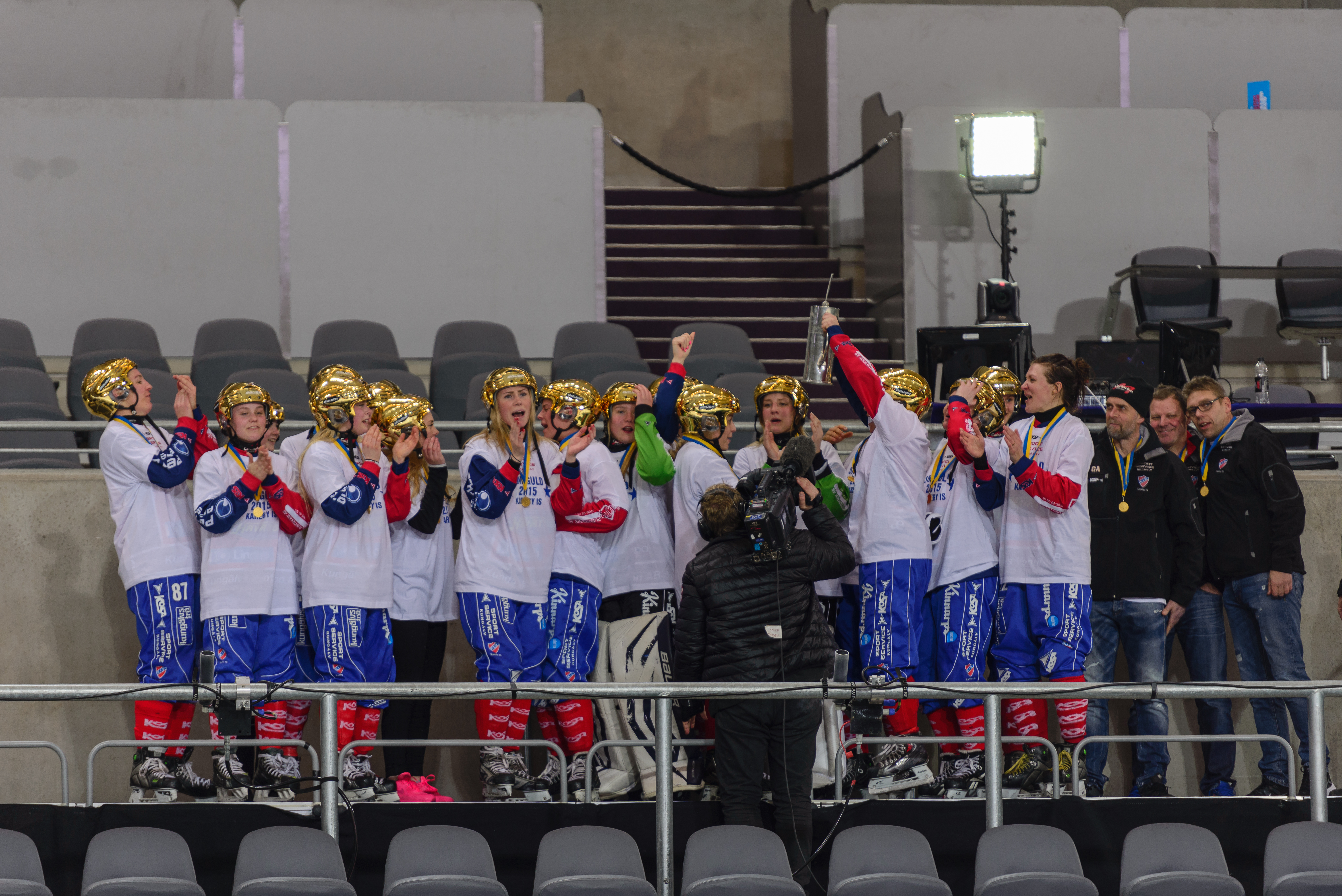 Swedish championship in bandy, final (women). Kareby 3 vs AIK 1.